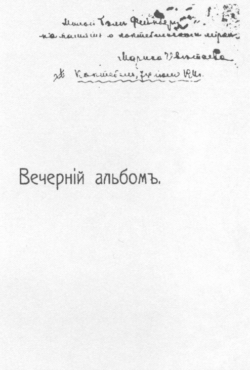 "Vecherniy albom" (Evening Book) - first book of rhythmes by Marina Tsvetaeva